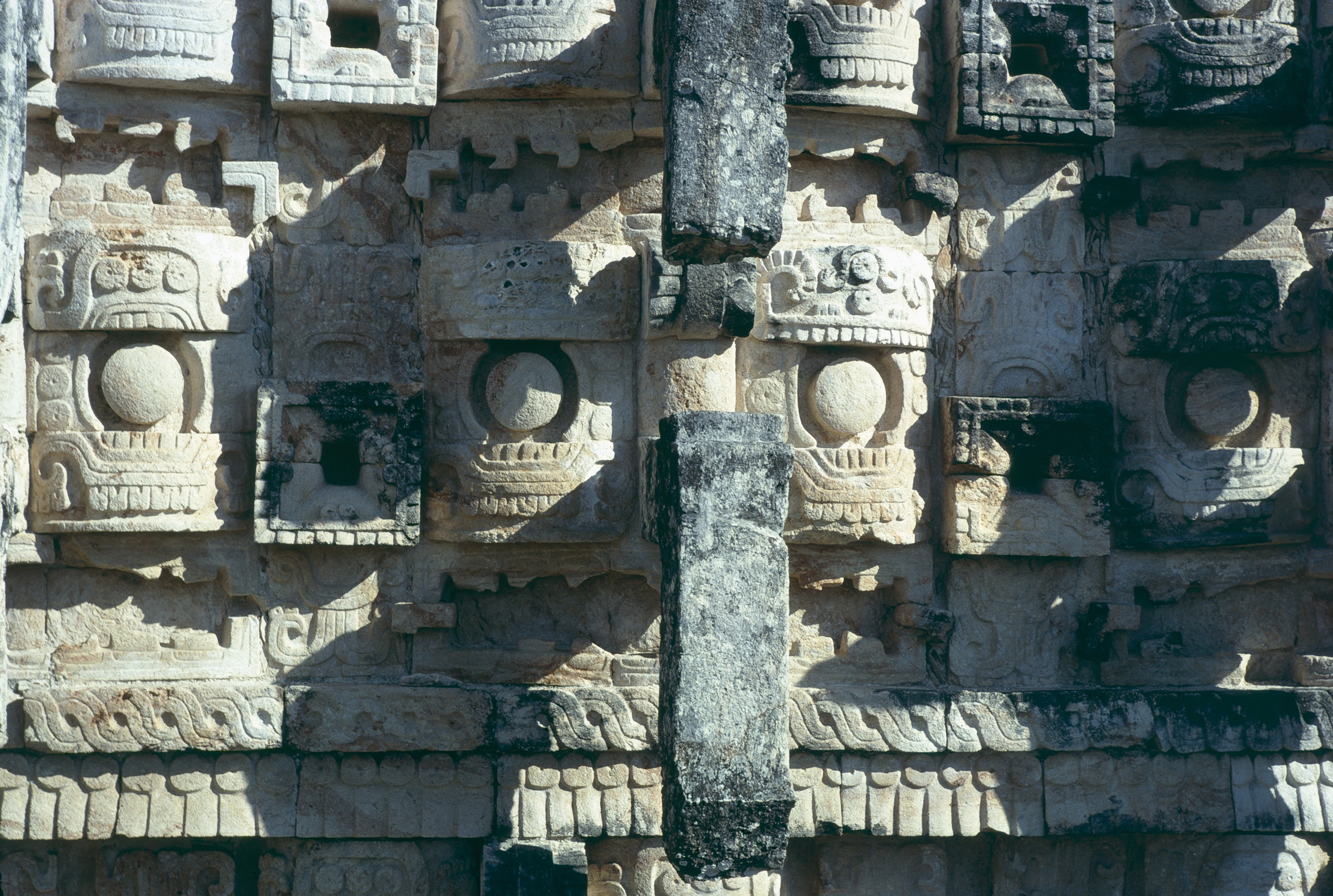 Kabah, Yucatan, Mexico: Codz Poop, mask